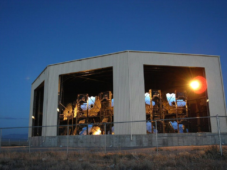 one of the FD sites for the Telescope Array Project